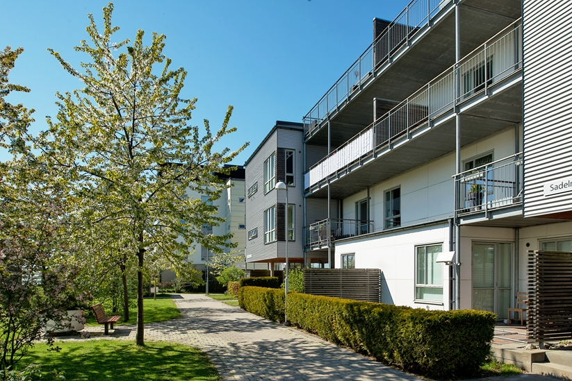 Annestad apartments